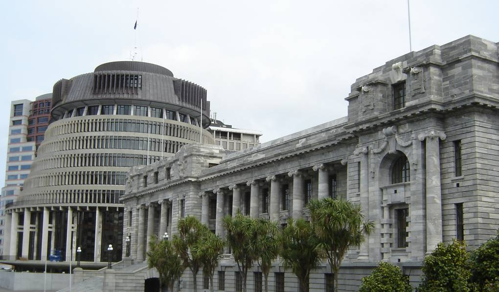 Photograph of the Parliament Buildings in Wellington, New Zealand. Taken by a talentless hack with a digital camera. Silenceisfoo 05:23, 4 Apr 2005 (UTC). .